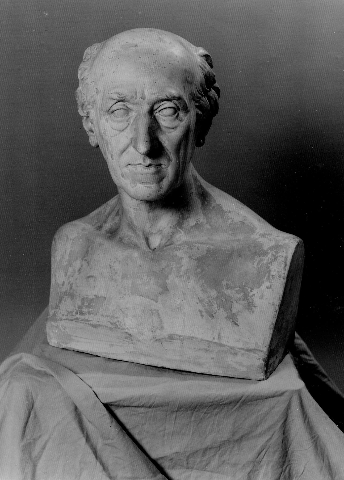 Karl Gottfried Hagen (1749 - 1829) german Prof. of the university of Koenigsberg-Prussia, todays Kaliningrad-Russia